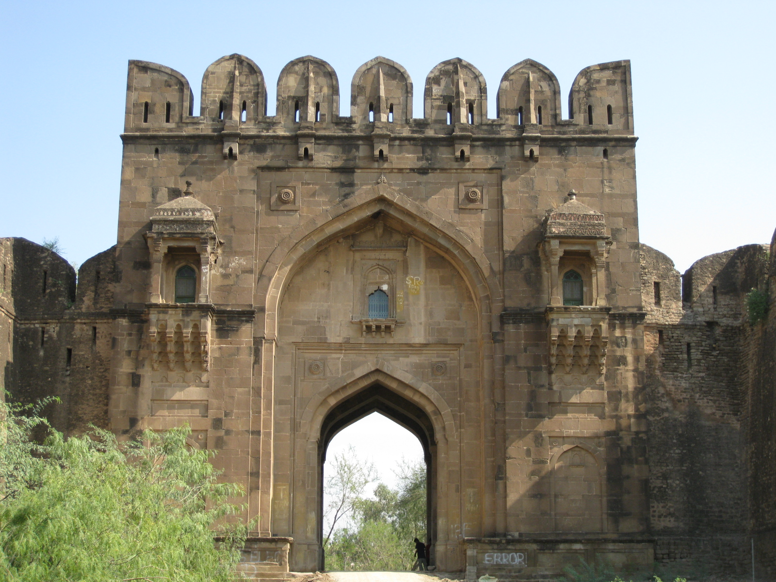 Rohtas Fort in District Jhelum Pakistan